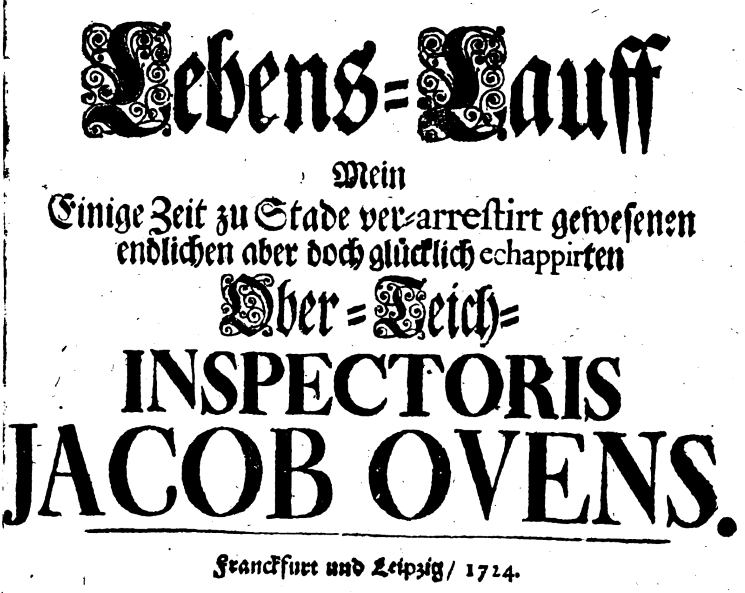 Cover of Jacob Ovens Memoires , Leipzig 1724